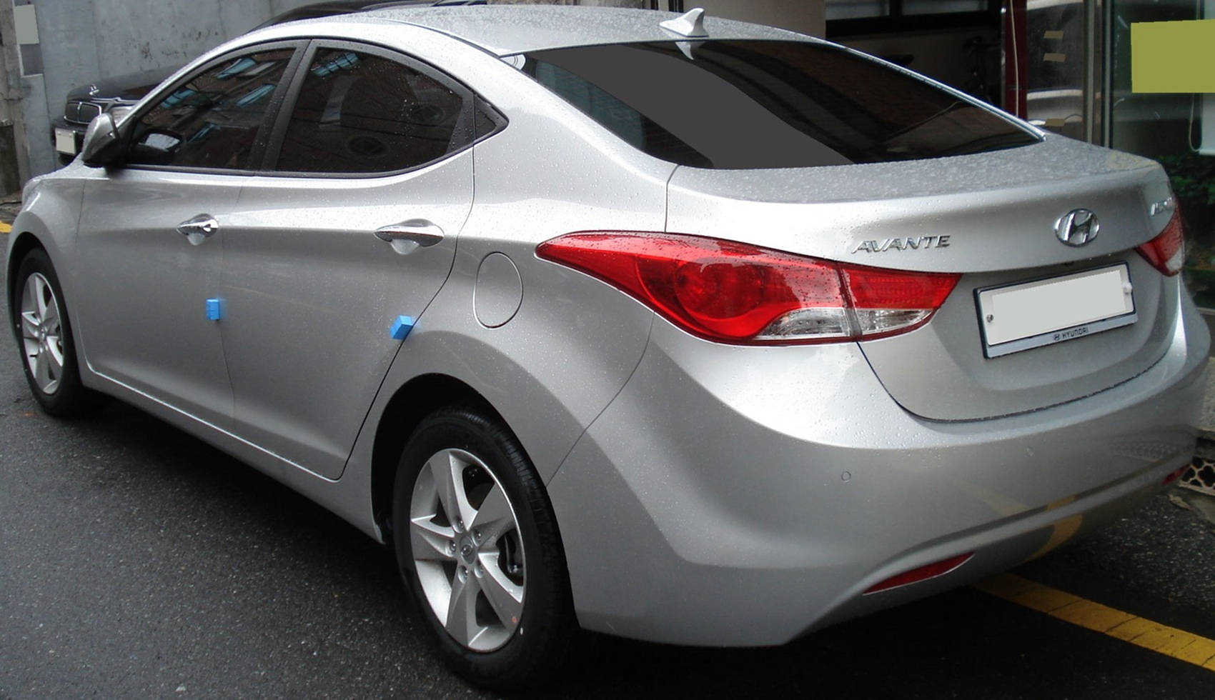 Hyundai Avante